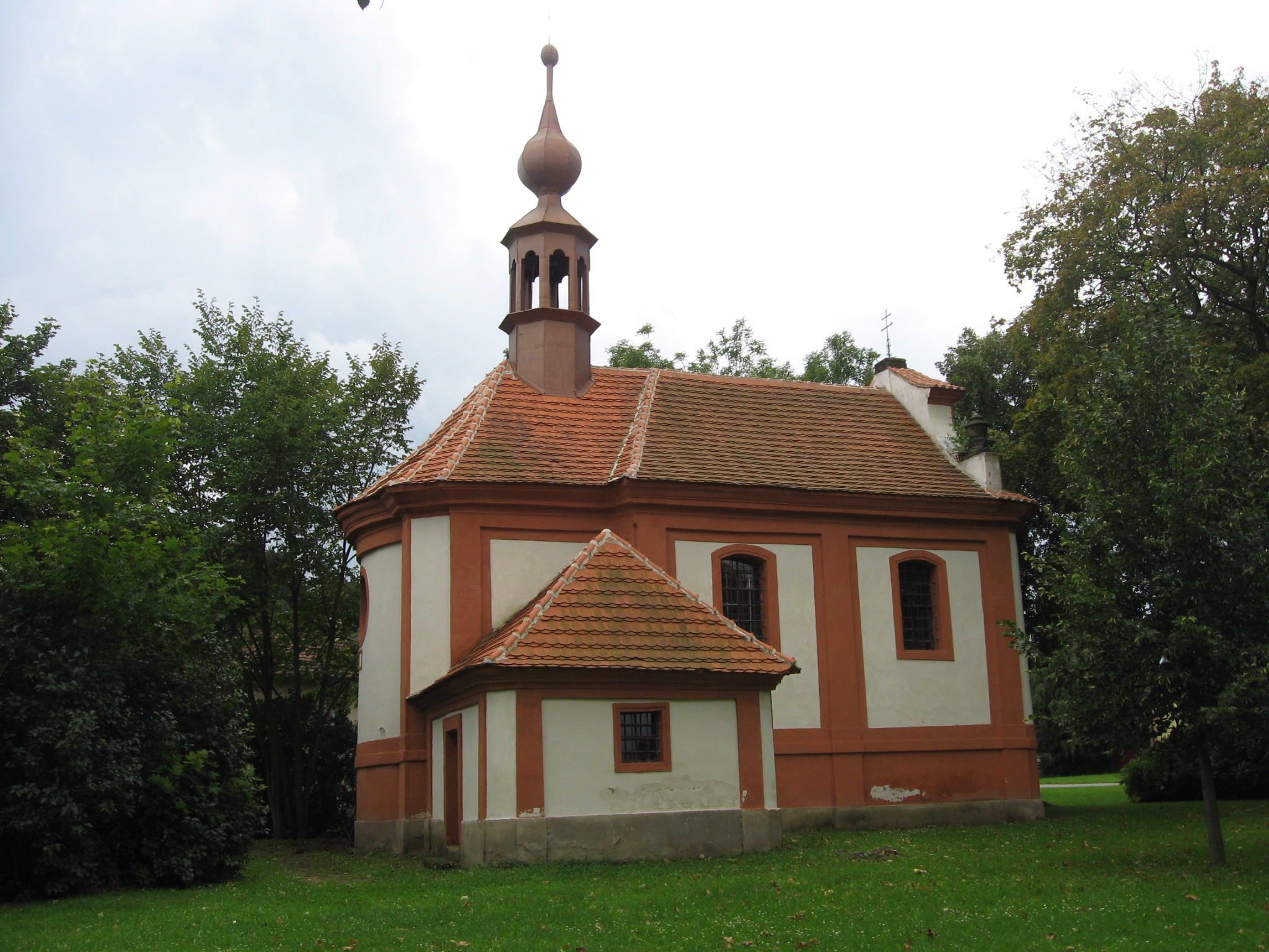 St.Martin church in Třebíz, Kladno District, Czech Republic